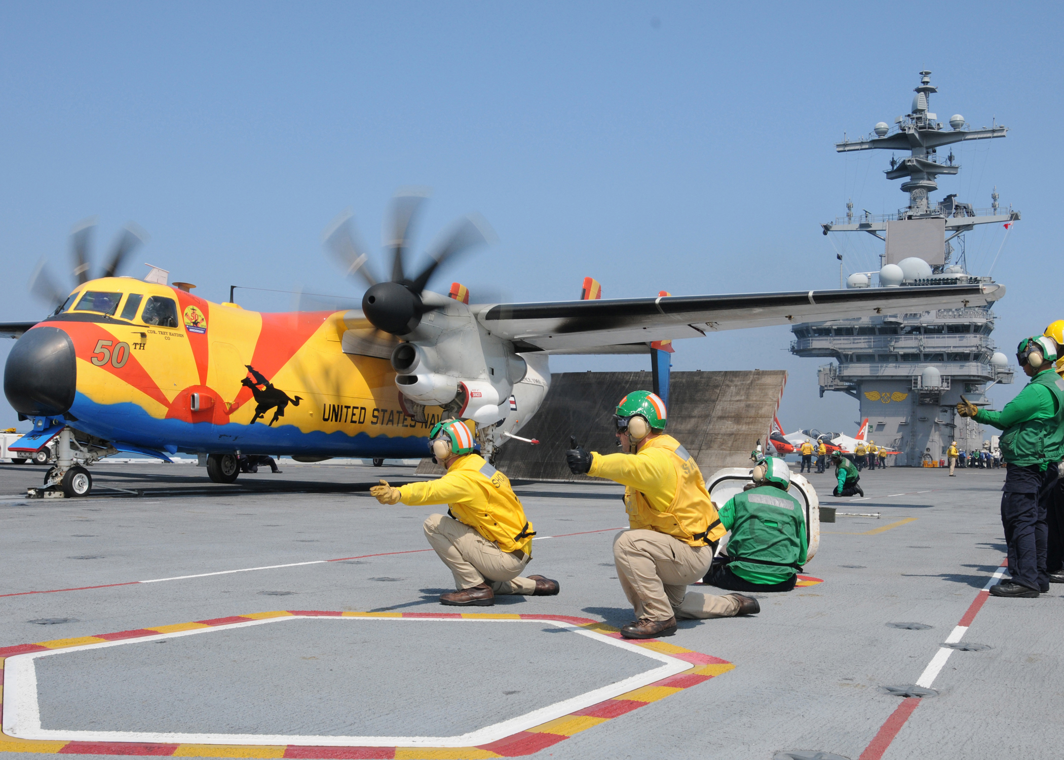 U.S. Navy catapult "shooters" assigned to the aircraft carrier USS George H.W. Bush (CVN-77) launch a Grumman C-2A Greyhound from fleet logistics support squardon VRC-40 Rawhides on 11 June 2010. The George H.W. Bush was conducting training operations in the Atlantic Ocean. The C-2A wears a paint scheme to commemorate the 50th anniversary of the establishment of VRC-40.